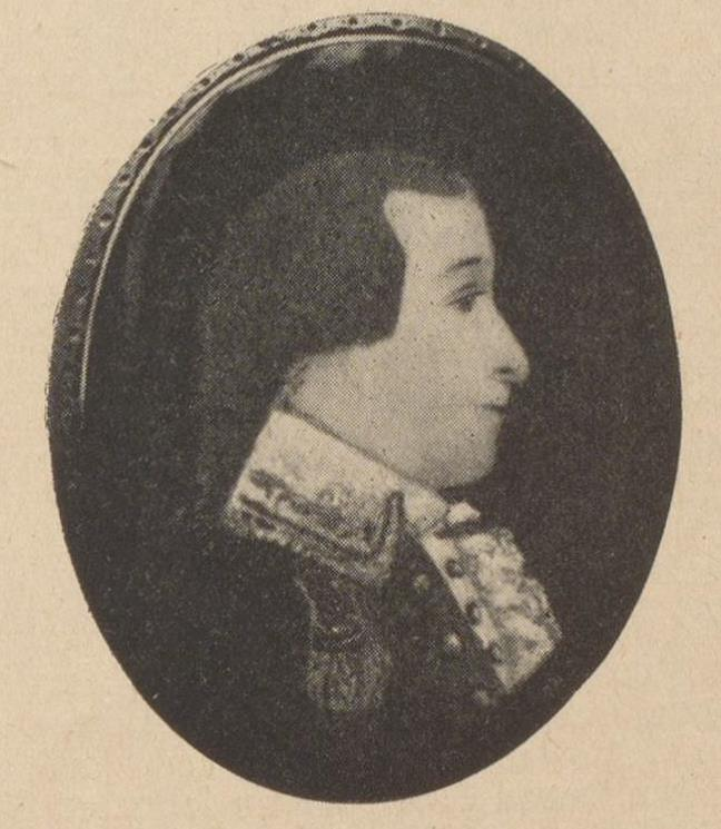 Nikolaus Otto von Wickede